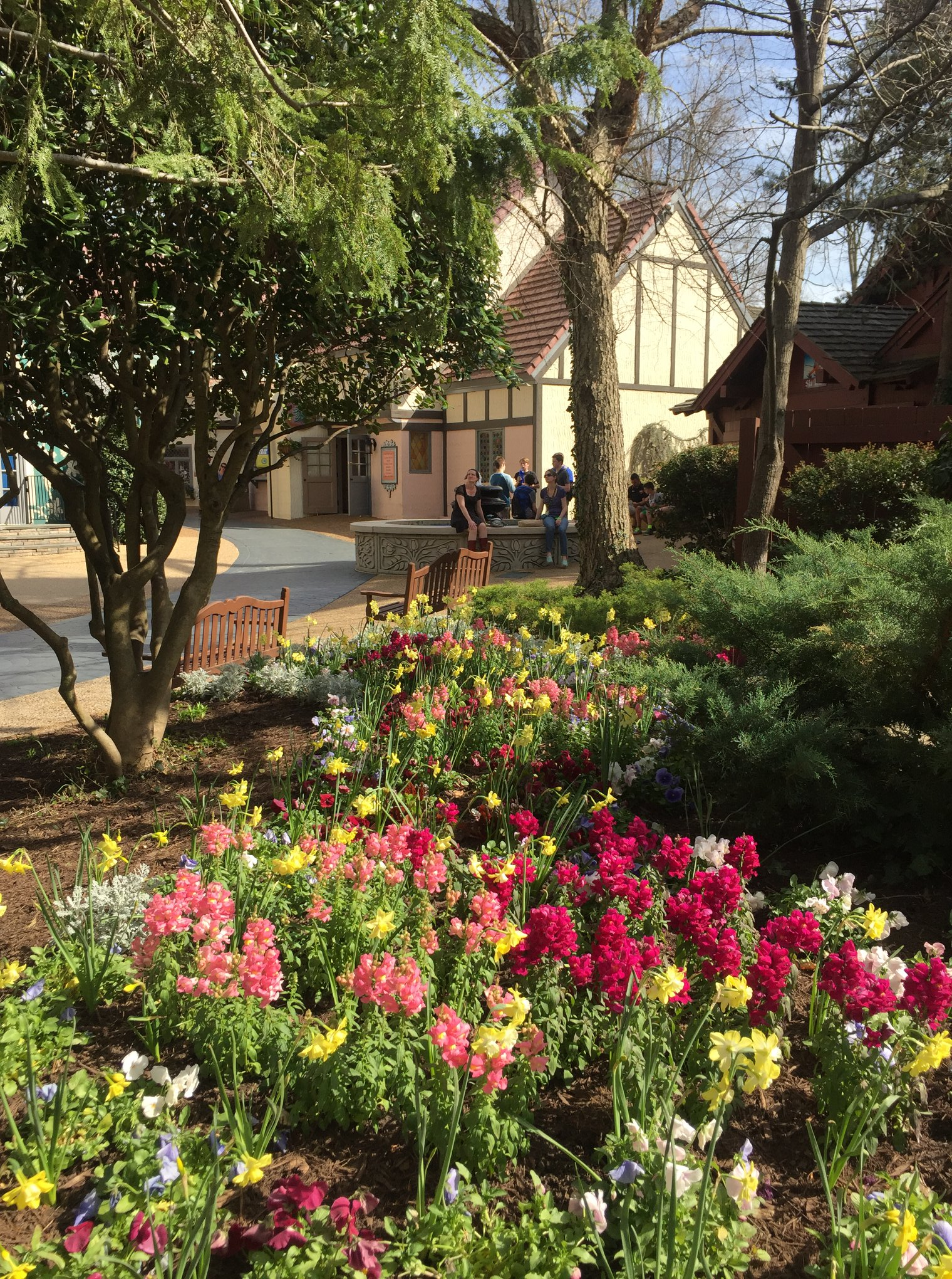 Rheinfeld in the spring.